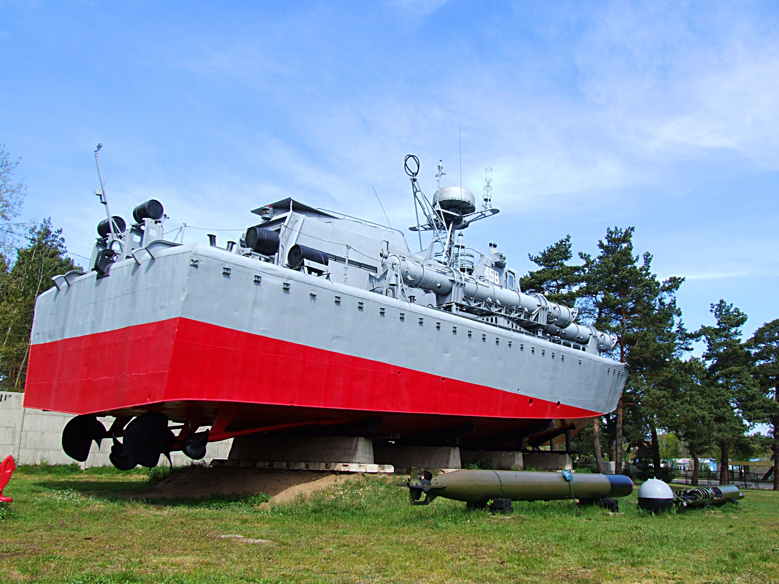 This picture was taken in The White Eagle Museum in Skarżysko-Kamienna